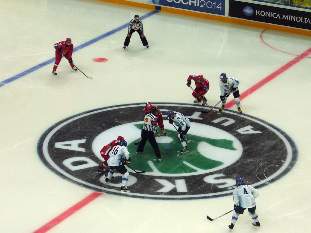 Semifinal Russia vs. Finland 1:2 OT; Khodynka Arena